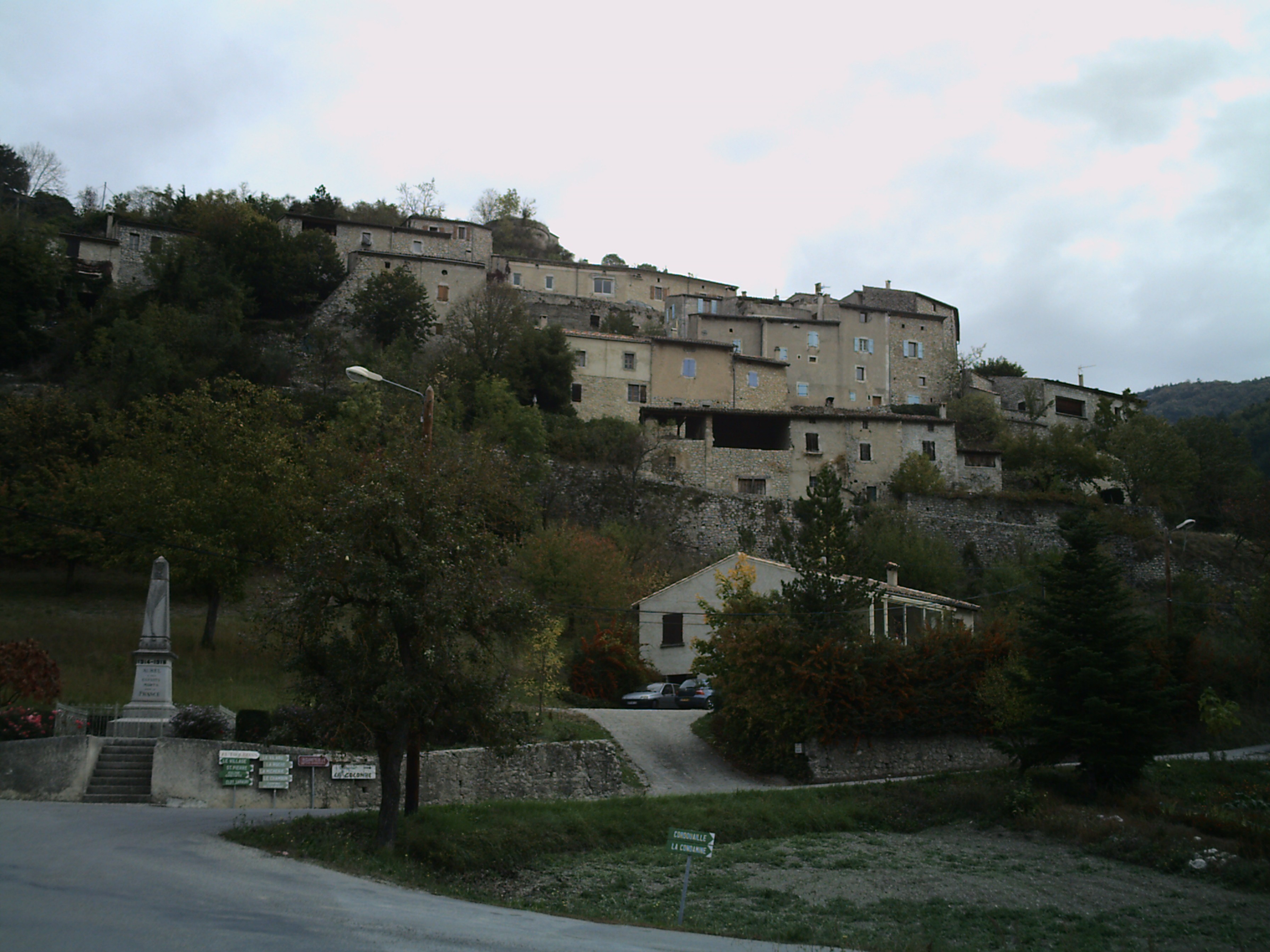 Town of Aurel, Drôme, France